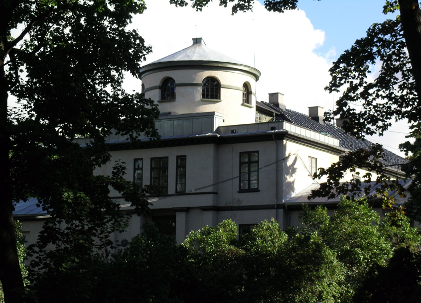 The Observatory, University of Oslo. Today: The Centre for Ibsen Studies.